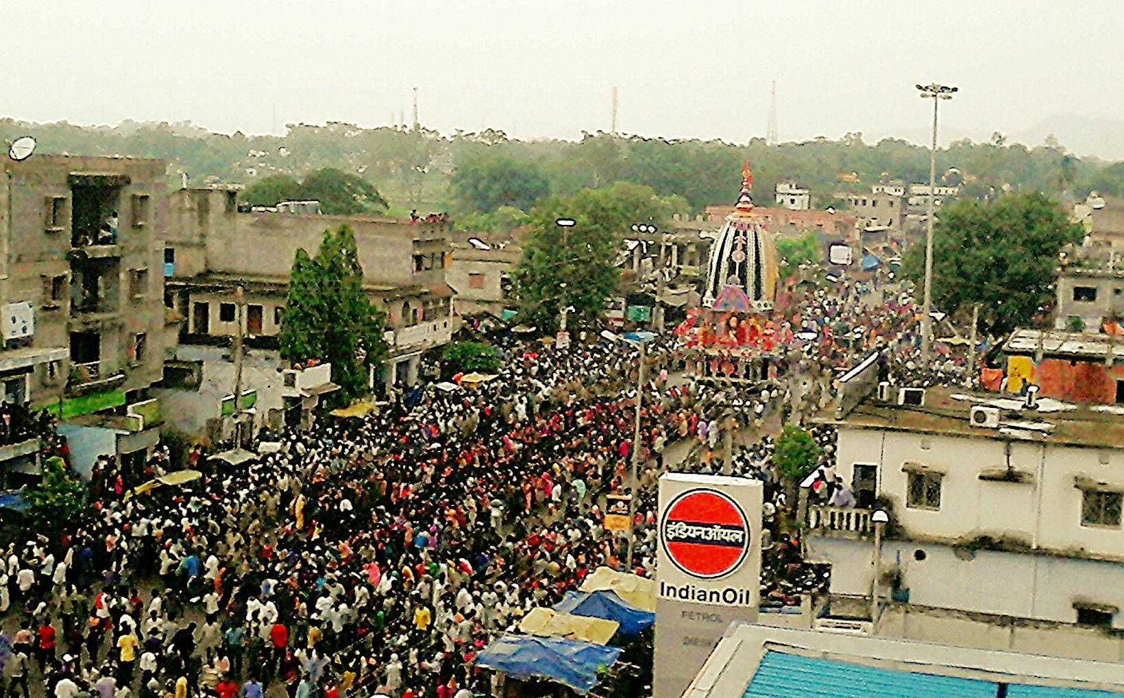 bahuda2014-Rairangpur